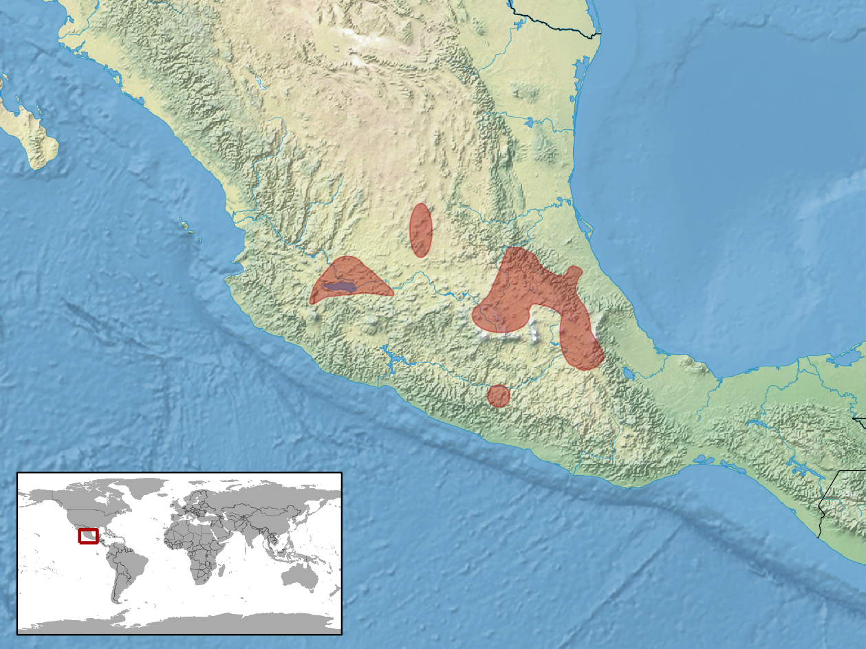 geographic distribution of Conopsis lineata (Native: Mexico)